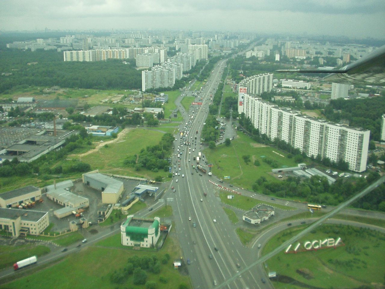 Varshavskoe shosse, Moscow, Russia